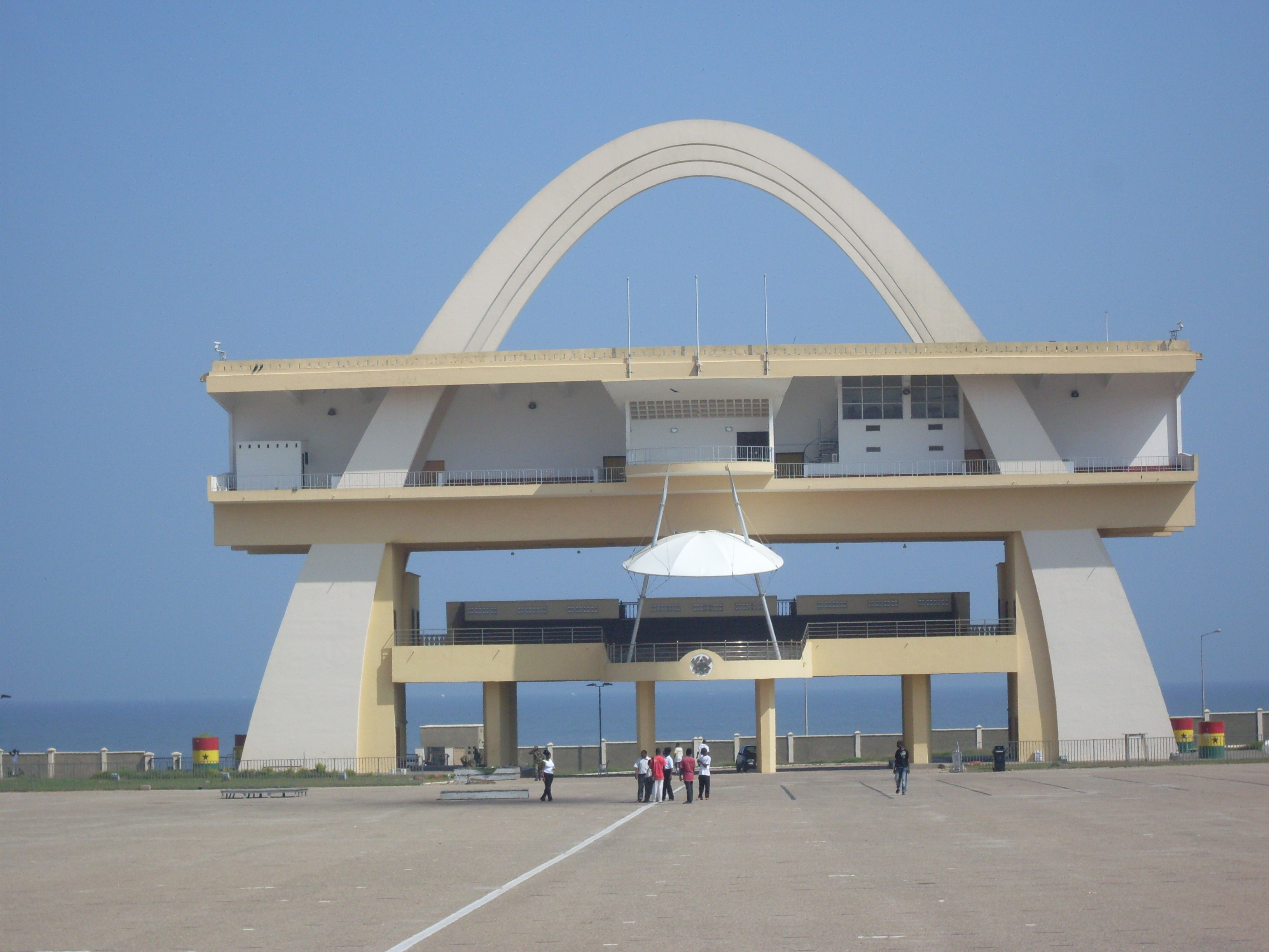 Photo of the Independence Square in Accra, Ghana. The tribunes are situated vis-à-vis the Independence Arch